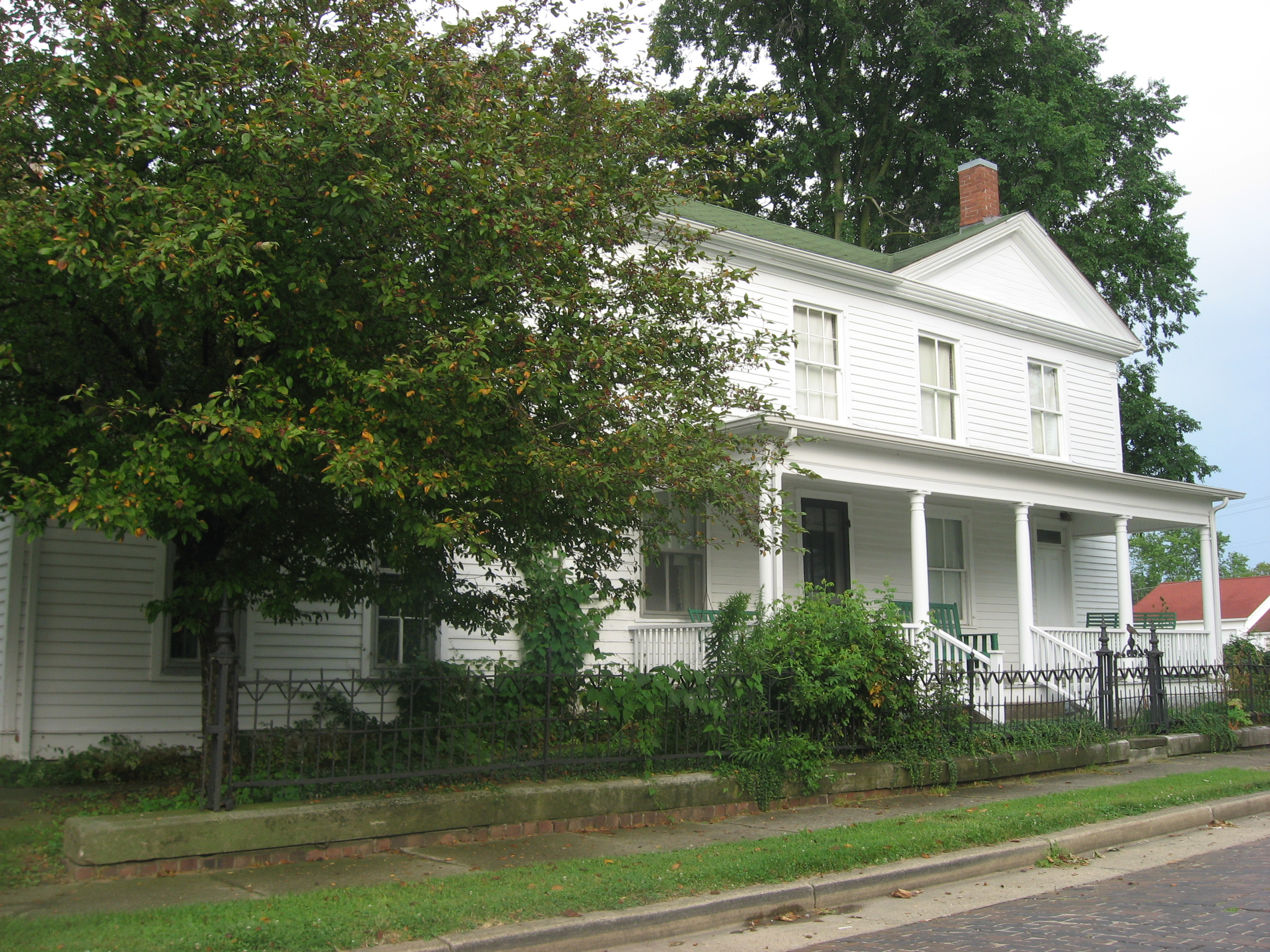 Front of the Dr. Hiram Rutherford House, located at 14 S. Pike Street in Oakland, Illinois, United States. Built in 1846, it is listed on the National Register of Historic Places.